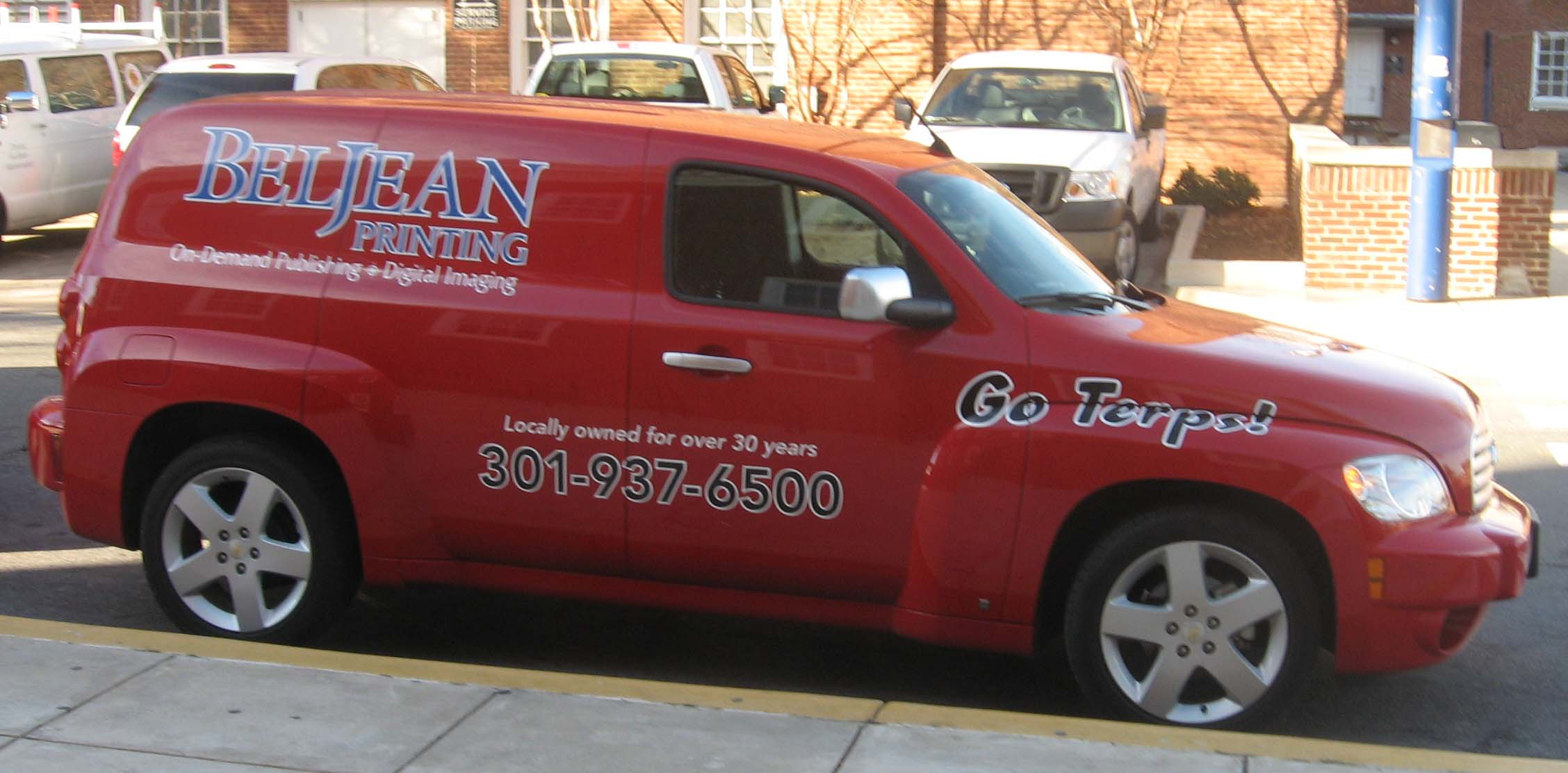 2007-2008 Chevrolet HHR photographed in College Park, Maryland, USA.